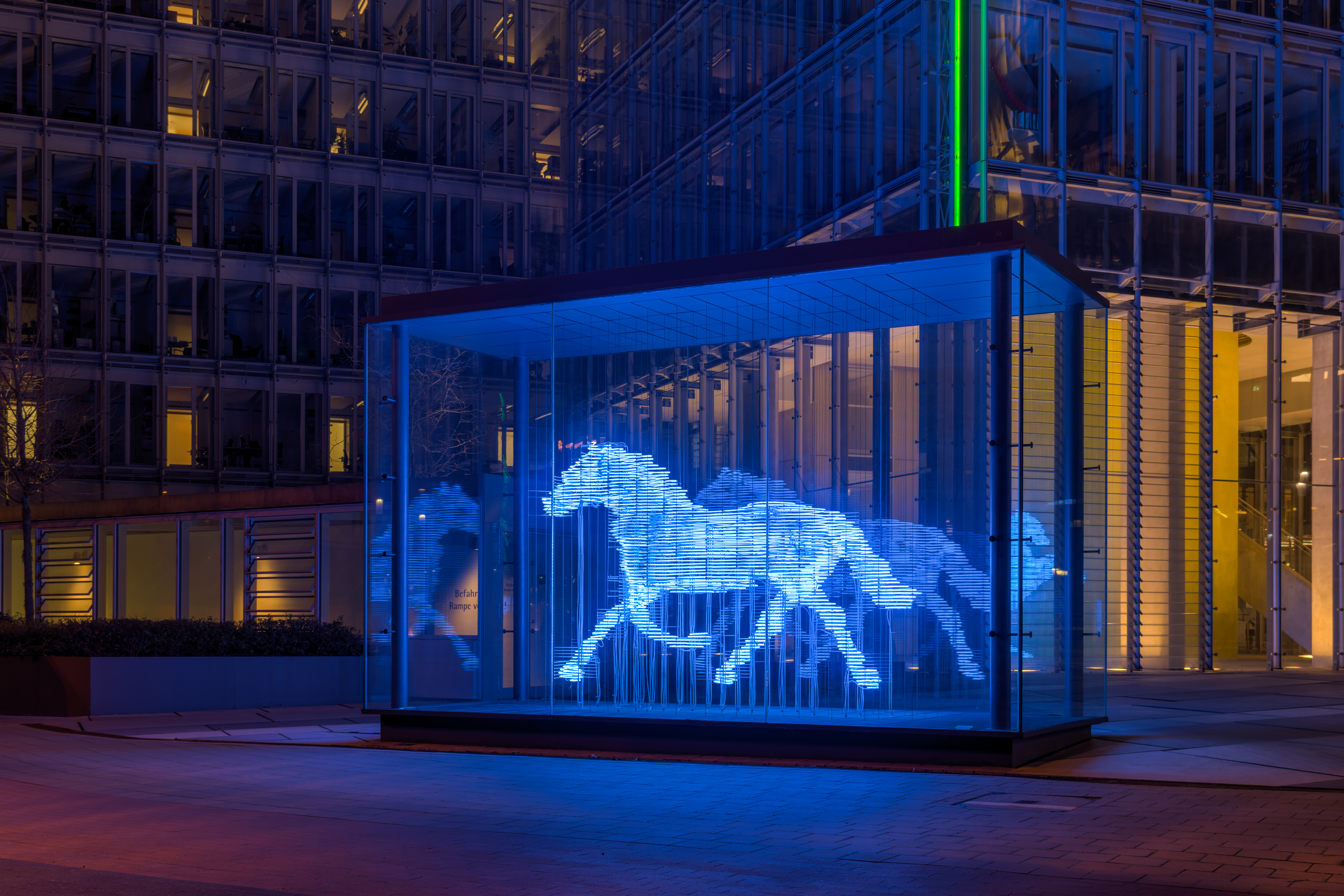 Sculpture “Zwei Pferde für Münster” (Stephan Huber, 2002) at the LVM building, Münster, North Rhine-Westphalia, Germany; (The second horse is inside the building and in the background from this angle.)